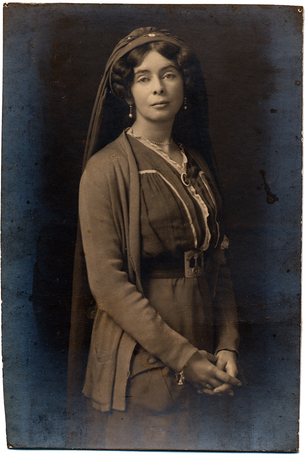 Circa 1916, unknown photographer, probably in London, England